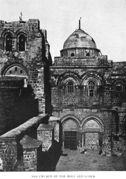 Homiletic Review Published 1885 Funk & Wagnalls ; W.Briggs